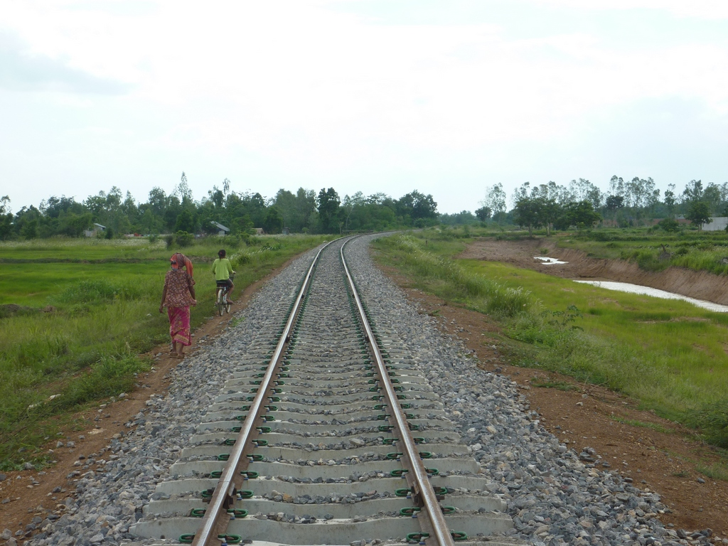 Construction of Poipet-Sisophon railway, Cambodia